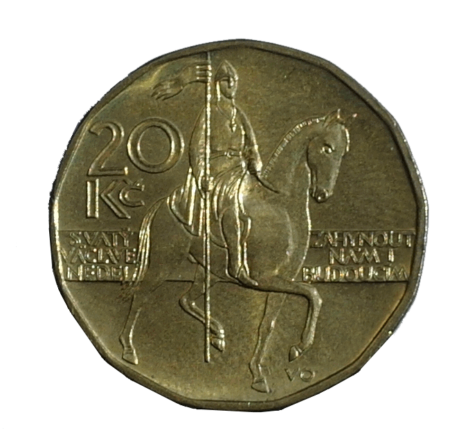 20 CZK coin of 2002 (reverse), depicting theon Wenceslas Square, inscription from the monument "SVATÝ VÁCLAVE NEDEJ ZAHYNOUTI NÁM I BUDOUCÍM" ("Saint Wenceslas do not let perish us nor our descendants").